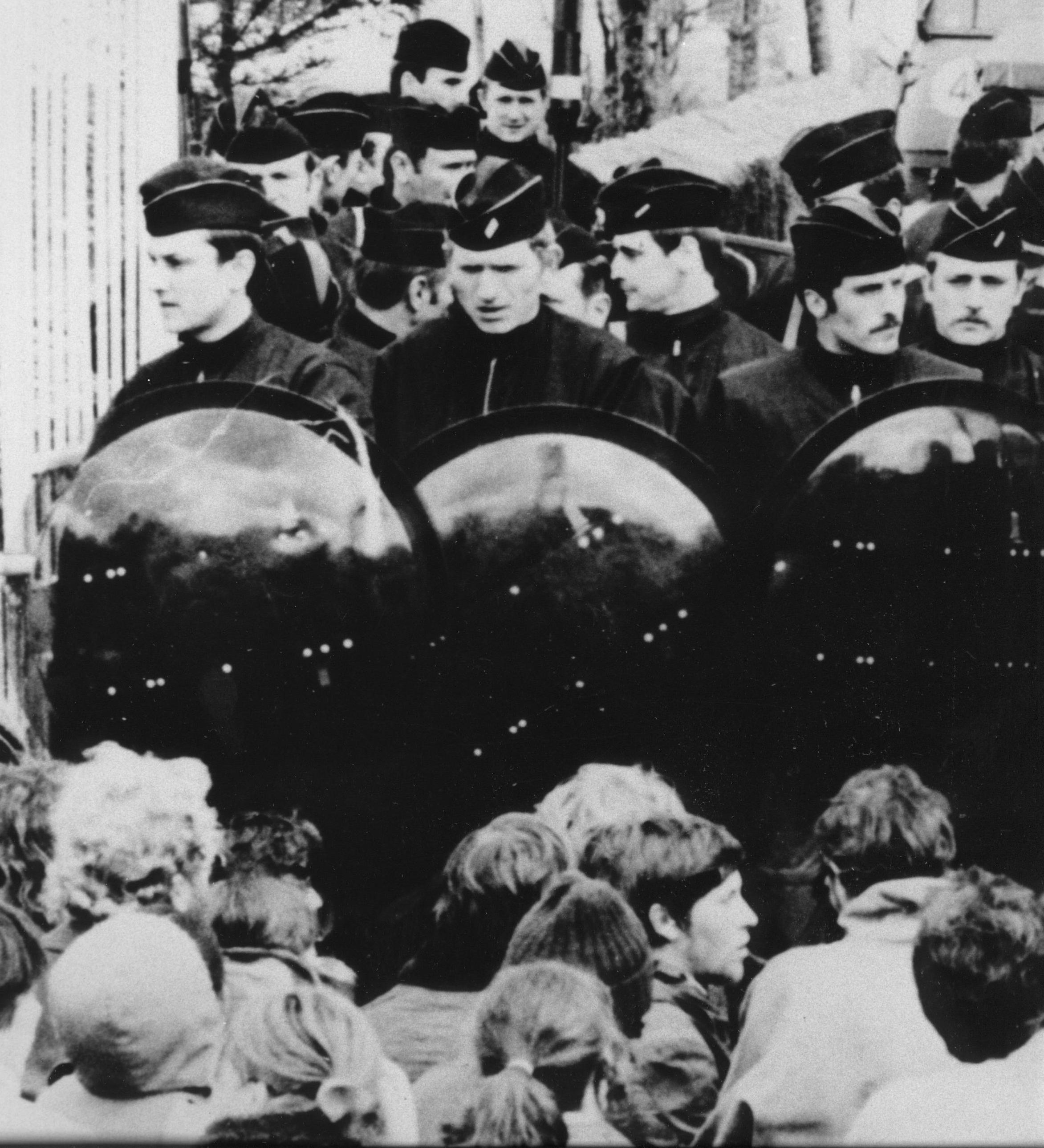 Policemen and demonstrators during the military camp extension protest, Larzac, France.